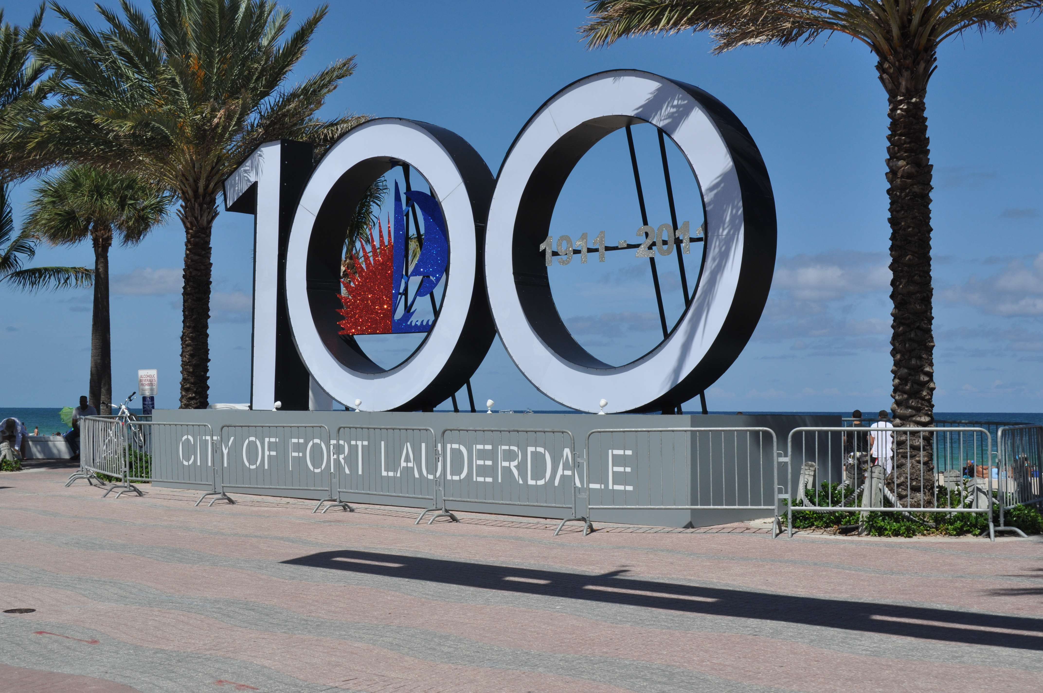 Display at Ft. Lauderdale, Florida, celebrating the city's 100th anniversary.